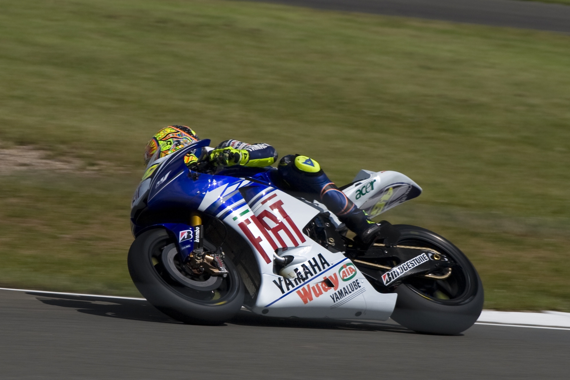 Valentino Rossi, riding his FIAT Yamaha at the 2008 British Grand Prix.